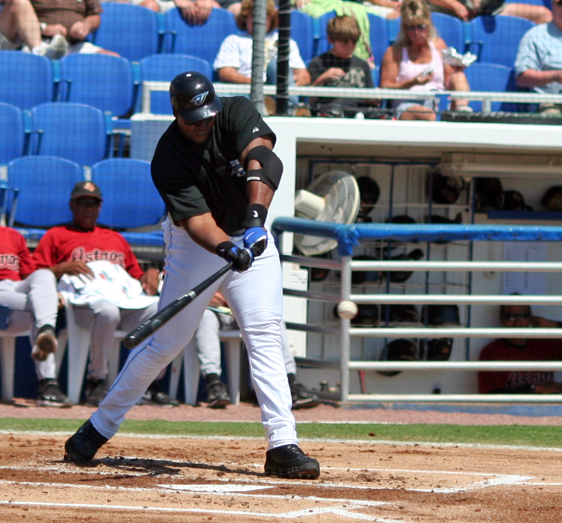 Frank Thomas about to get a hit - Spring Training, Dunedin, Florida, Photo taken at 20:59, 28 March 2008